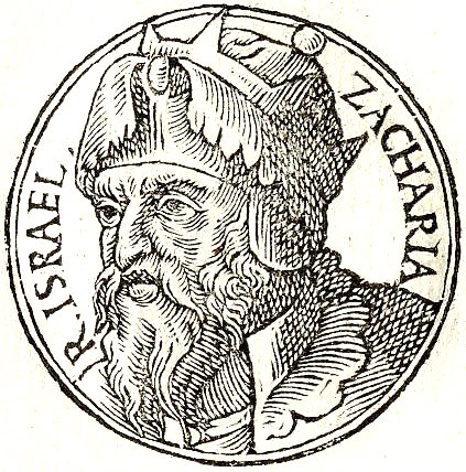 Zechariah of Israel was a king of the northern Israelite Kingdom of Israel, and son of Jeroboam II.